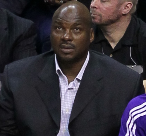 Los Angeles Lakers assistant coach Chuck Person in 2010.